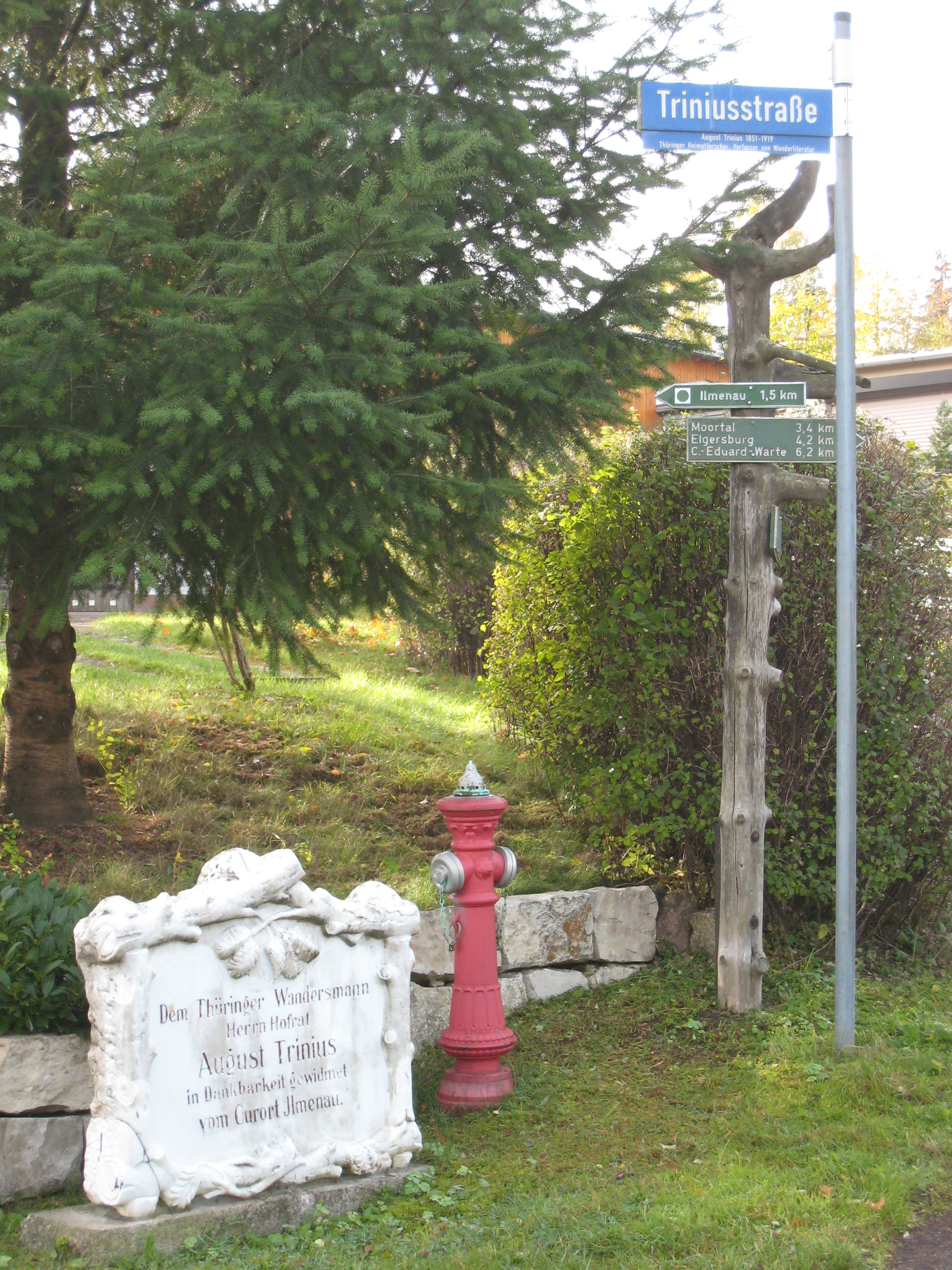 Memorigŝtono honore al la turingia verkisto August Trinius en Ilmenau je la komenco de la Trinius-strato